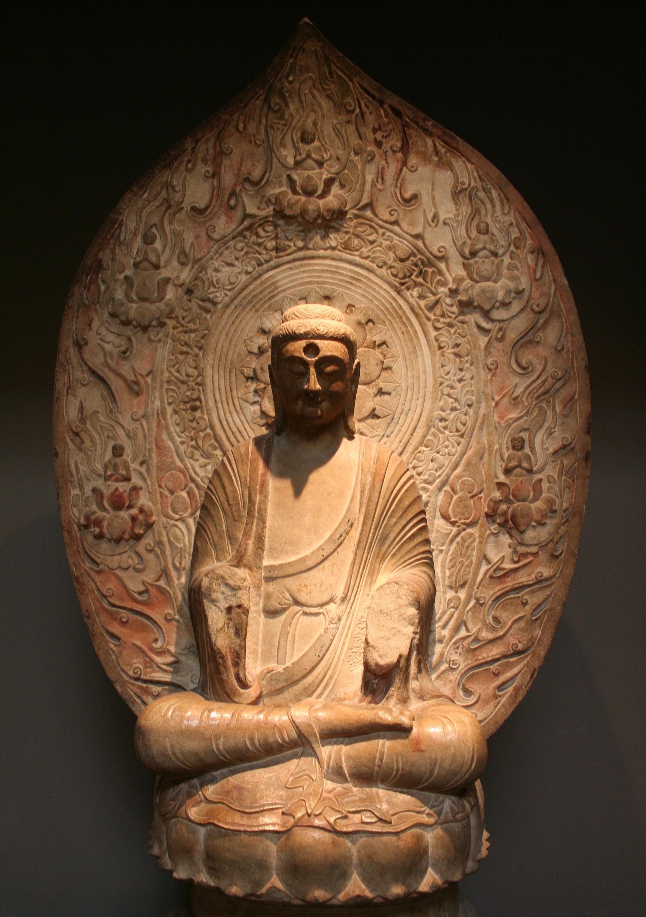 Amitabha Buddha (Amituofo). Marble. Hebei. Nothern Qi Style (550 – 578). Liao Dynasty (907 – 1125). Cernuschi Museum, Paris, France.